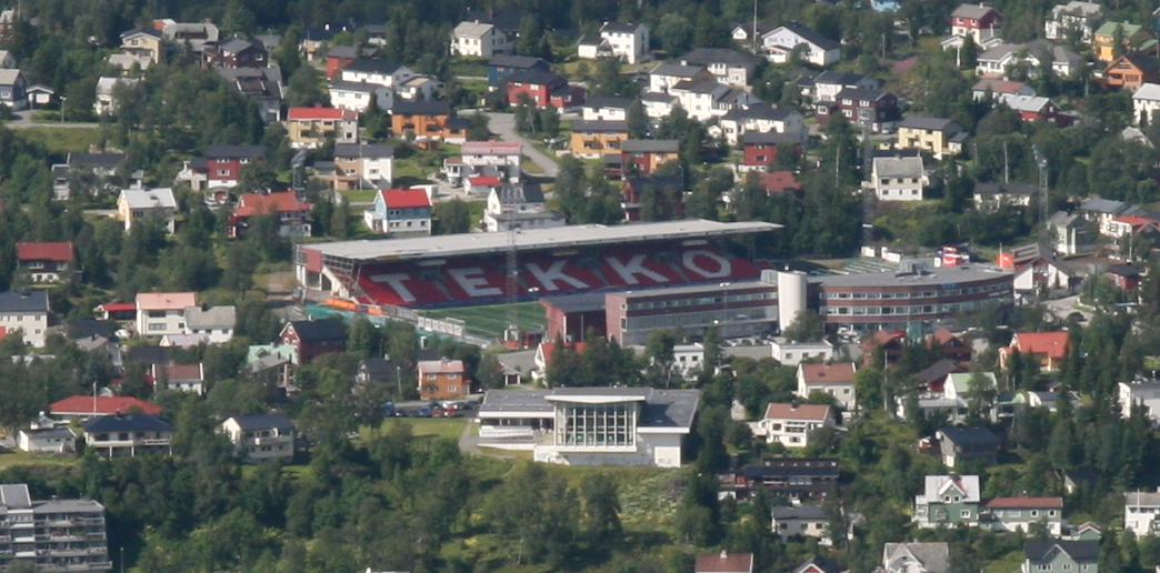 Alfheim stadion, seen from Fløya.